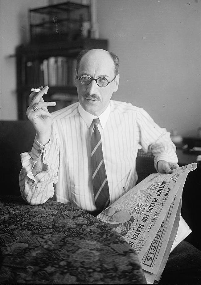 Hungarian Count Mihály Kaŕolyi, former PM of the first Hungarian republic.